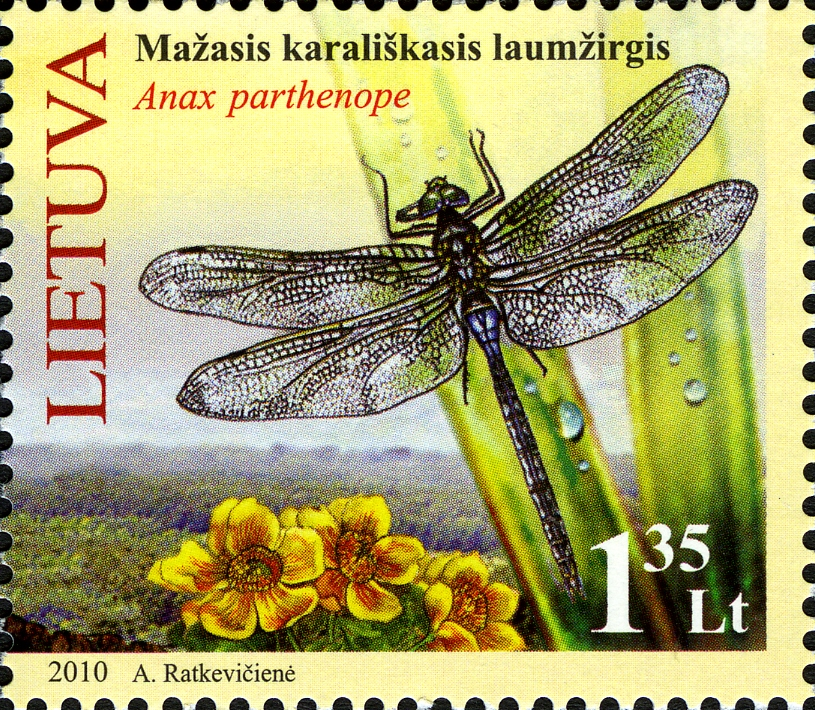 Stamps of Lithuania, 2010